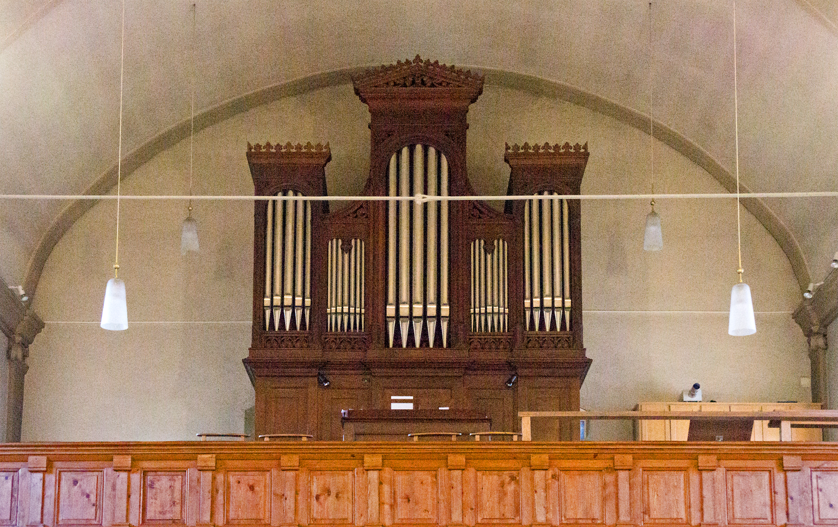 Pipe organ of the church in Pintsch